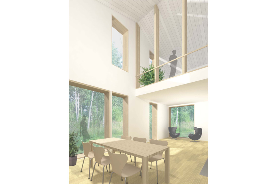 K3 Arkkityyppi, standardized low-energy one-family house design published by Finnish Cultural Foundation. Architect Kirsti Siven & Asko Takala arkkitehdit Oy.